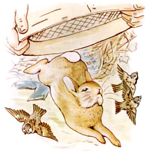 Illustration from children's book The Tale of Peter Rabbit